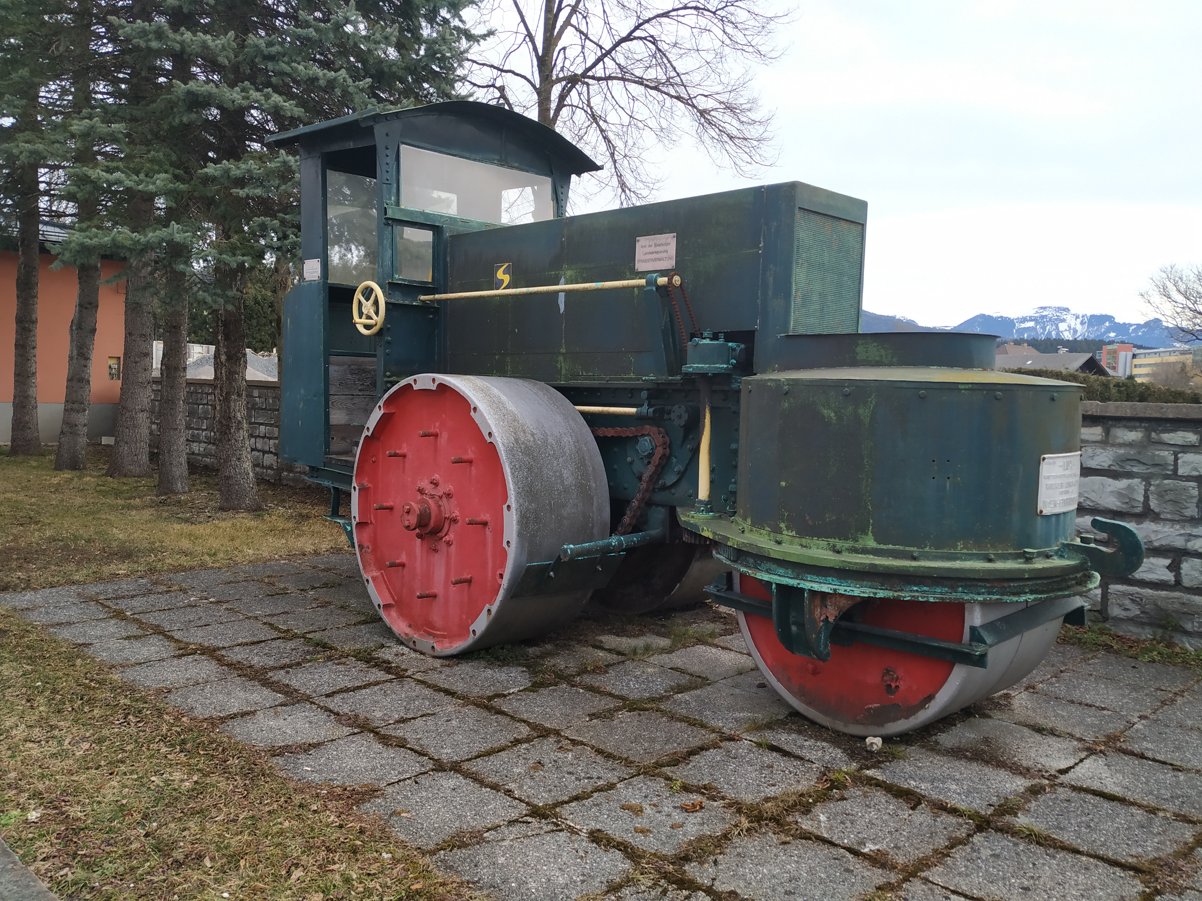 Historical road roller in Hallein, Austria